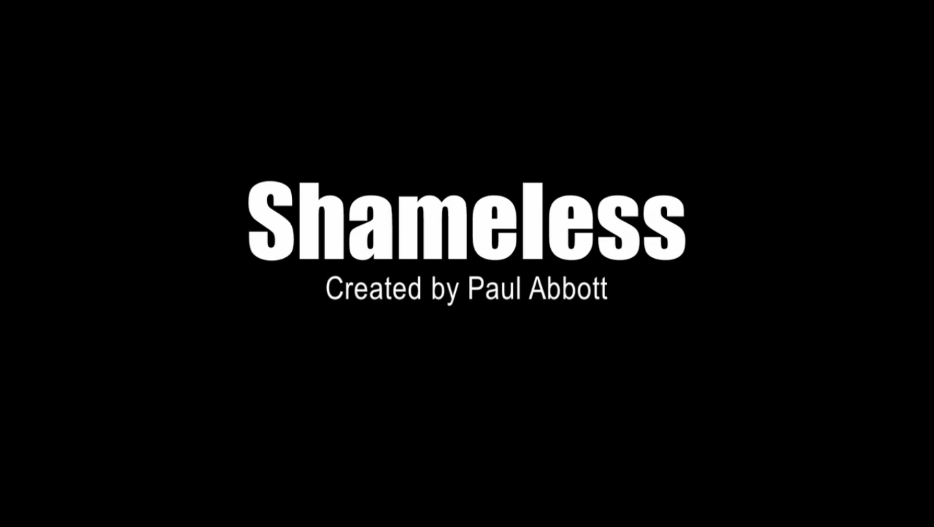 Intertitle from the Channel 4 television series Shameless